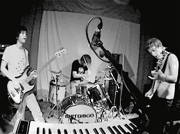 Shitdisco at Magnet Club, Berlin, 2007